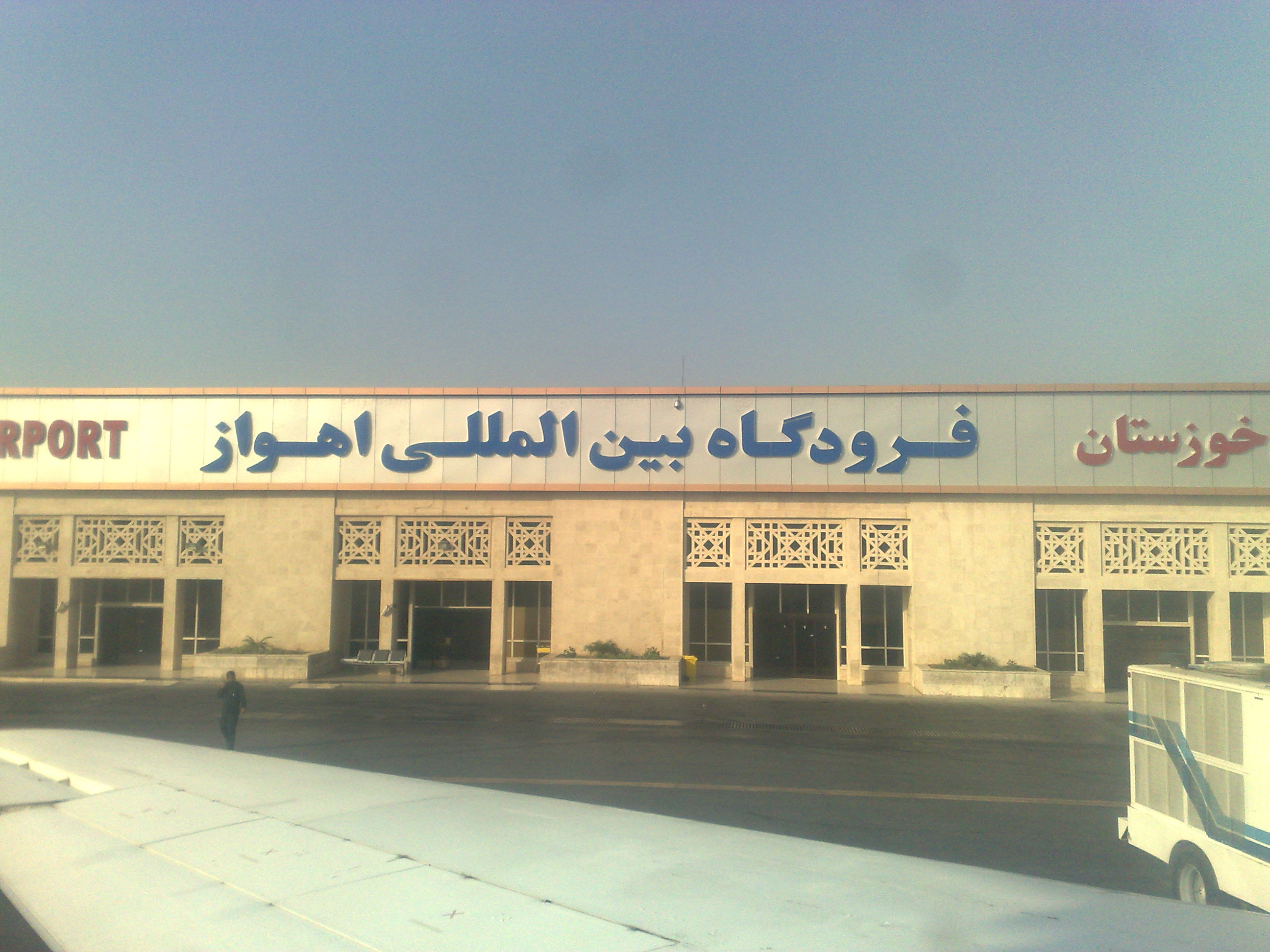 Ahwaz International Airport terminal